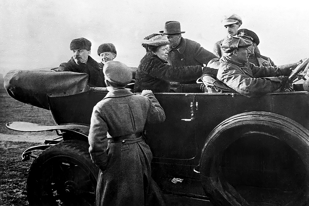 V.I. Lenin, N.K. Krupskaya and M.I. Ulyanova in a car after the finish of a Red Army parade at Khodynka Field in Moscow. May 1, 1918